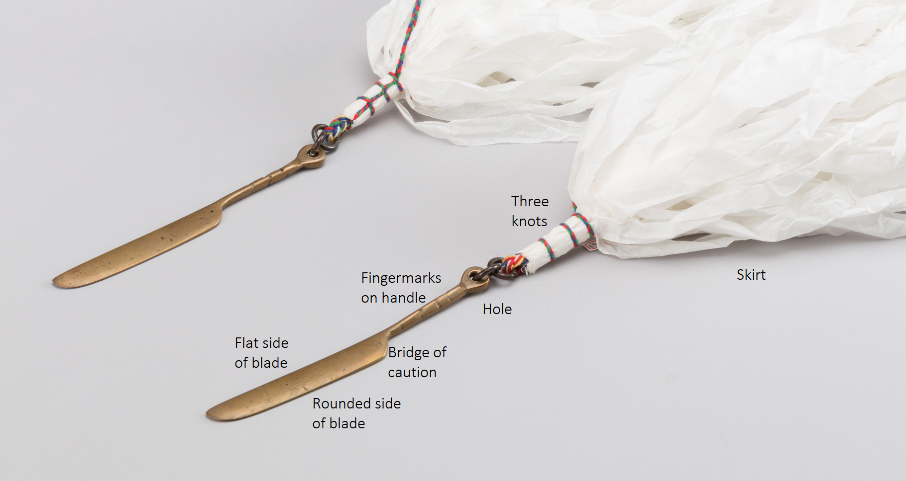 Labels on Yi Jung-chun's sacred knife. Source file: File:이종춘 심방 신칼.jpg